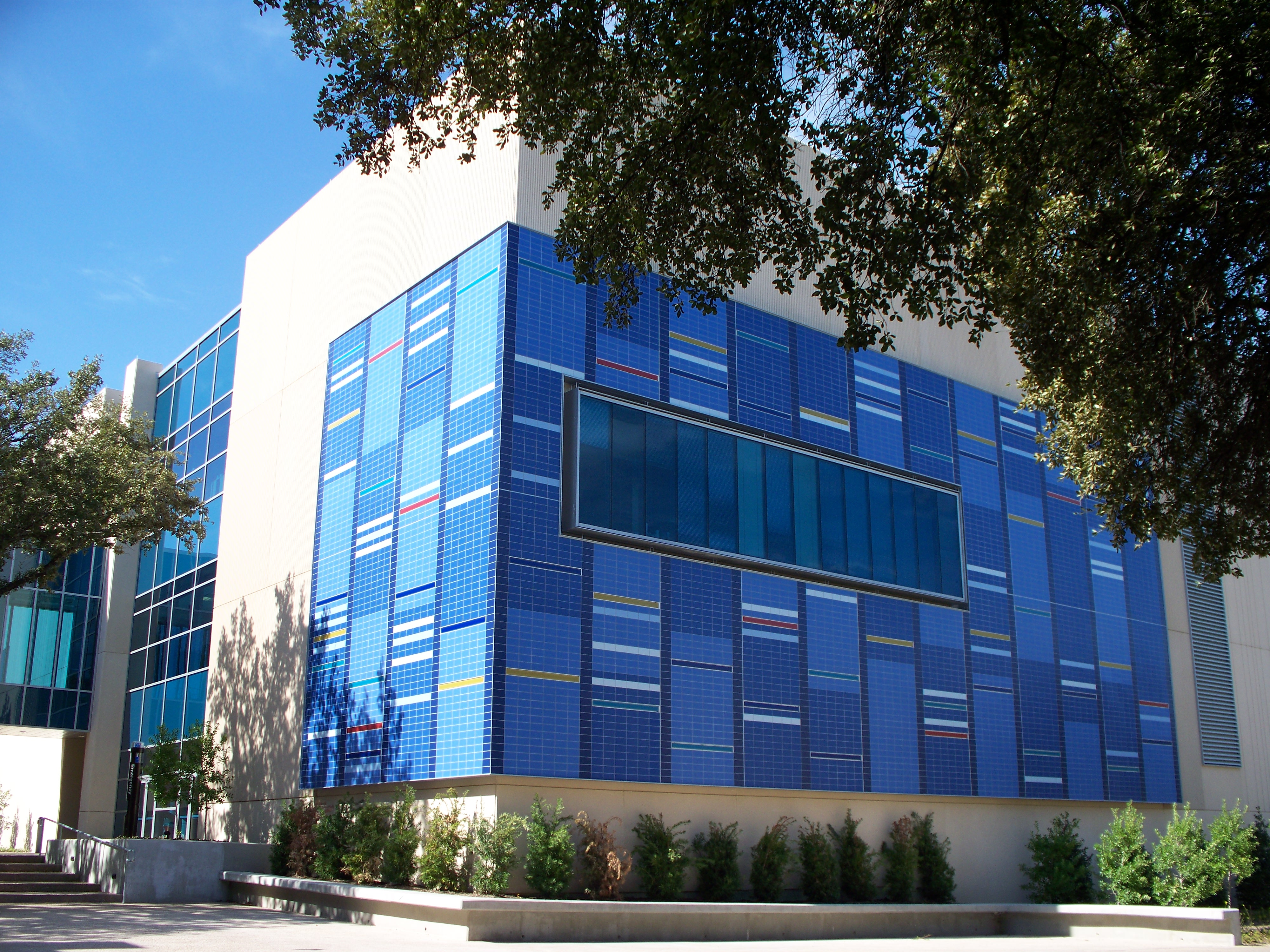 University of Texas at Dallas 74,000-square-foot (6,900 m2) Science Learning Center. The tile exterior represents two patterns: atomic emission spectra of gases, and human DNA when it is separated in a process called gel electrophoresis.